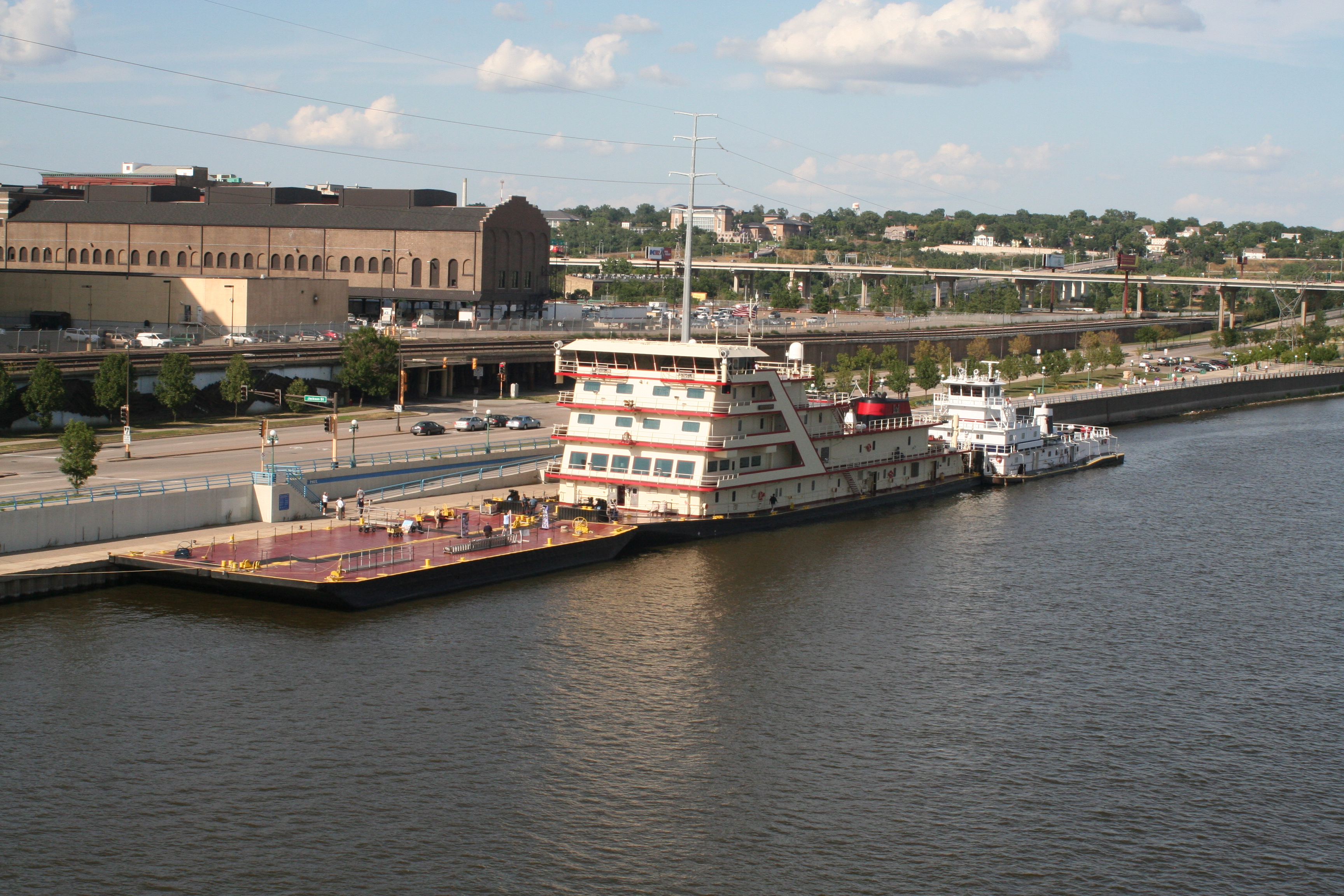 USACE Motor Vessel Mississippi (left) and Ingram Bruce R. Birmingham (right) docked at Port of Saint Paul, Minnesota, on August 9, 2008. M/V Mississippi has a short barge ahead of it, which is sometimes used when running without a load to reduce the bow wave. The Birmingham pulled in to take on water from the dock.